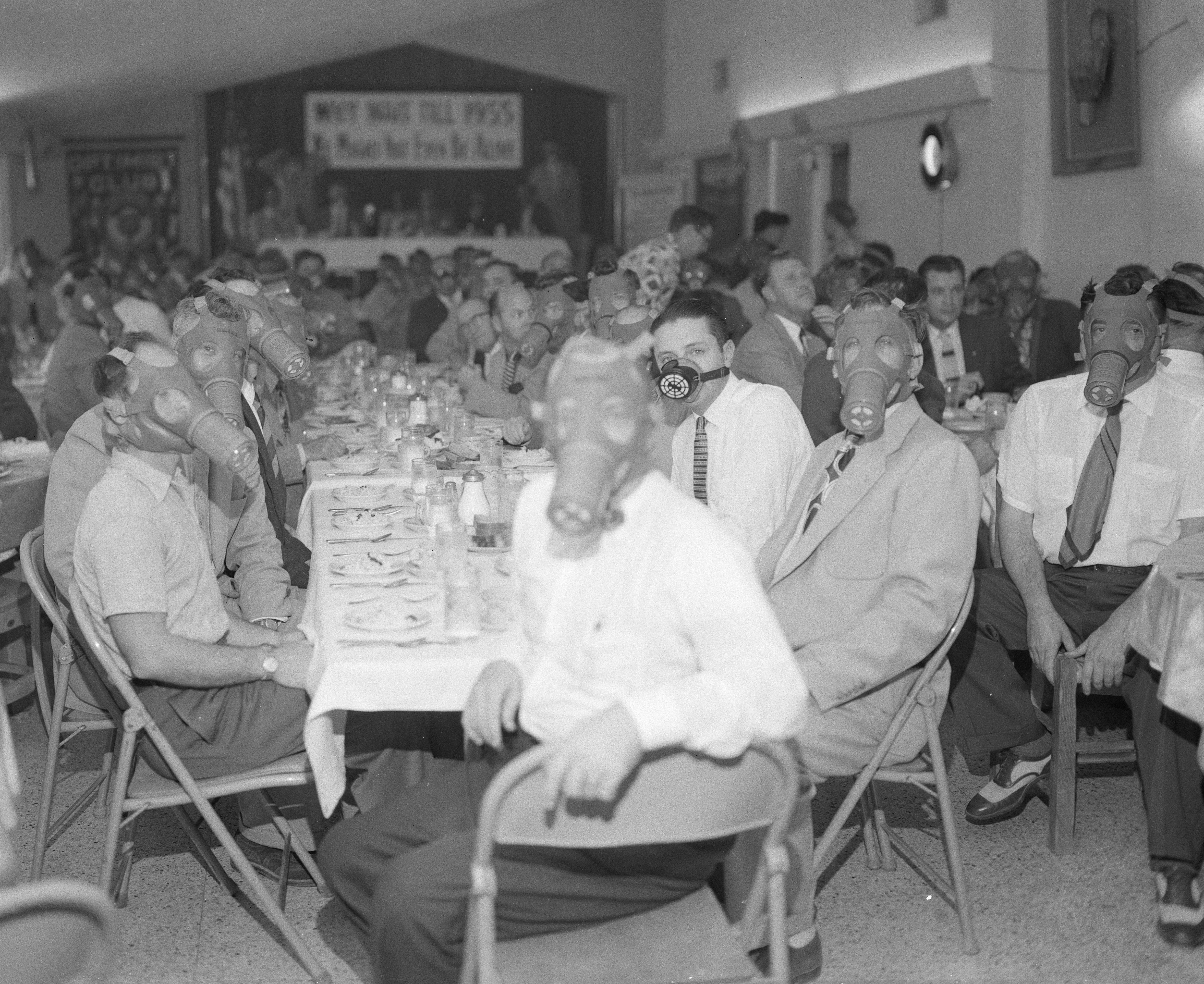 Title: Highland Park Optimist Club wearing smog-gas masks at banquet, , circa 1954. in the Highland Park district, Northeast Los Angeles, Southern California. Publication:Los Angeles Daily News Publication date:1954 Subjects: Air--Pollution--Physiological effect--California--Los Angeles Note about non-renewal of copyright: [1]